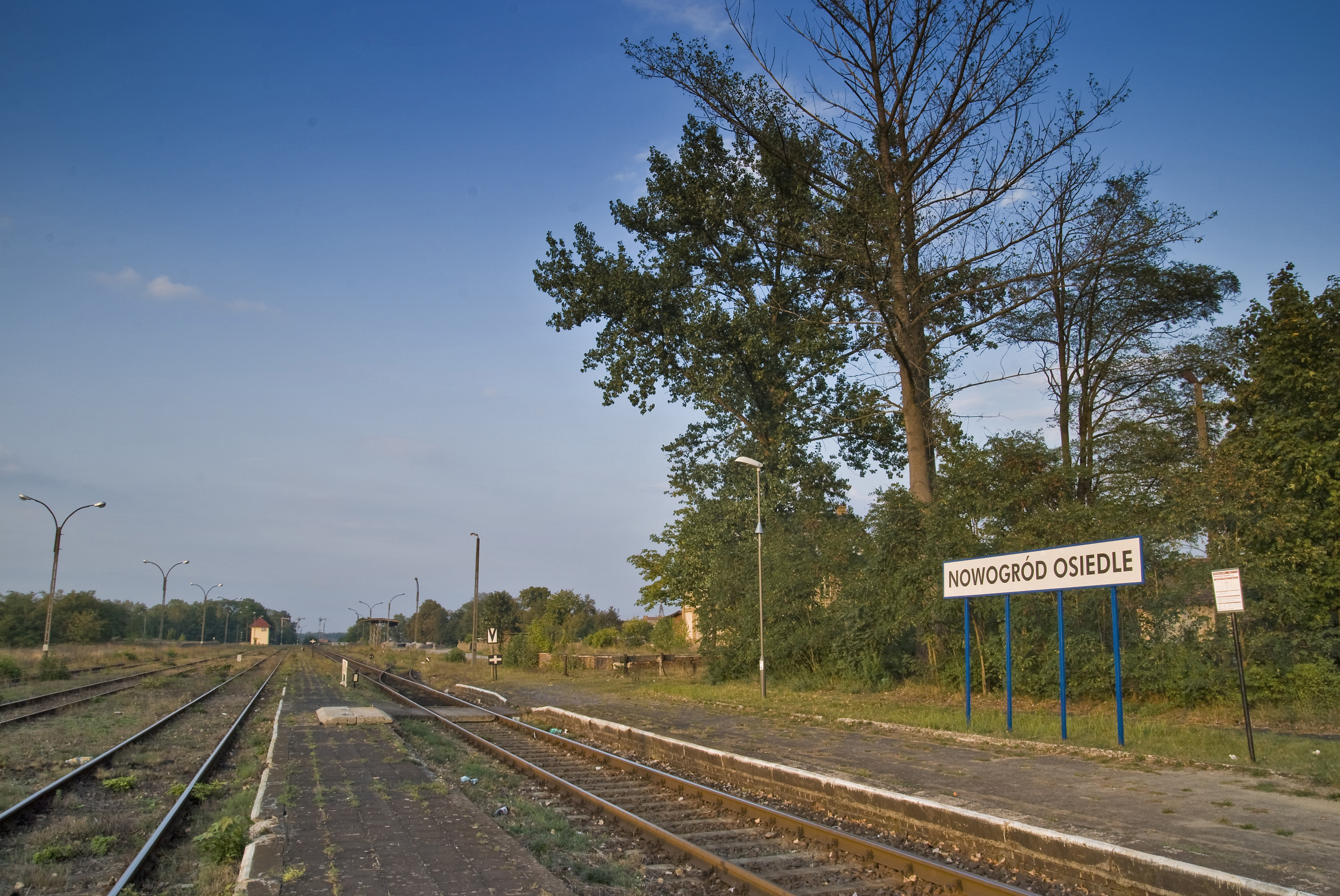 Train station in Nowogród Bobrzański near Zielona Góra, Poland